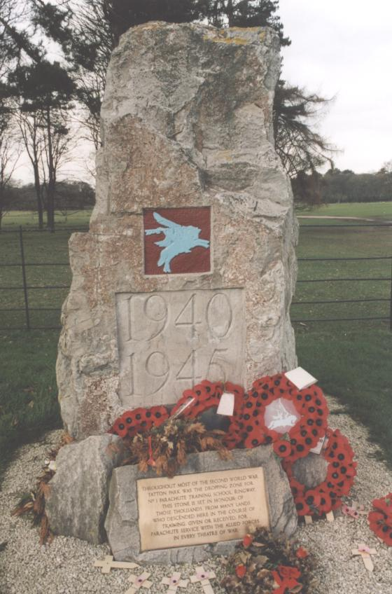 Memorial to No. 1 Parachute Training School at Tatton Park, Cheshire, UK